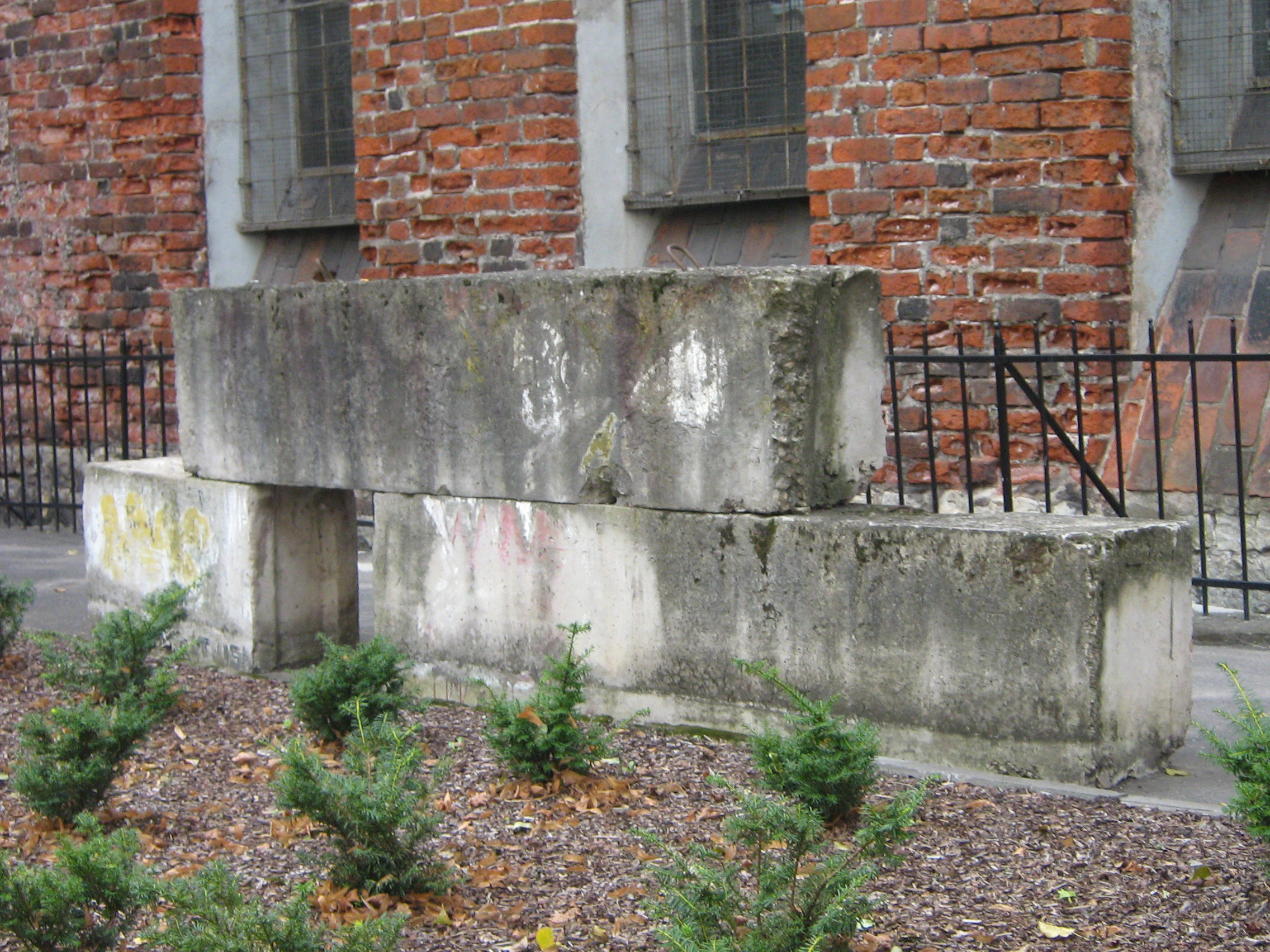 This should be remainder of January 1991 barricades in Riga